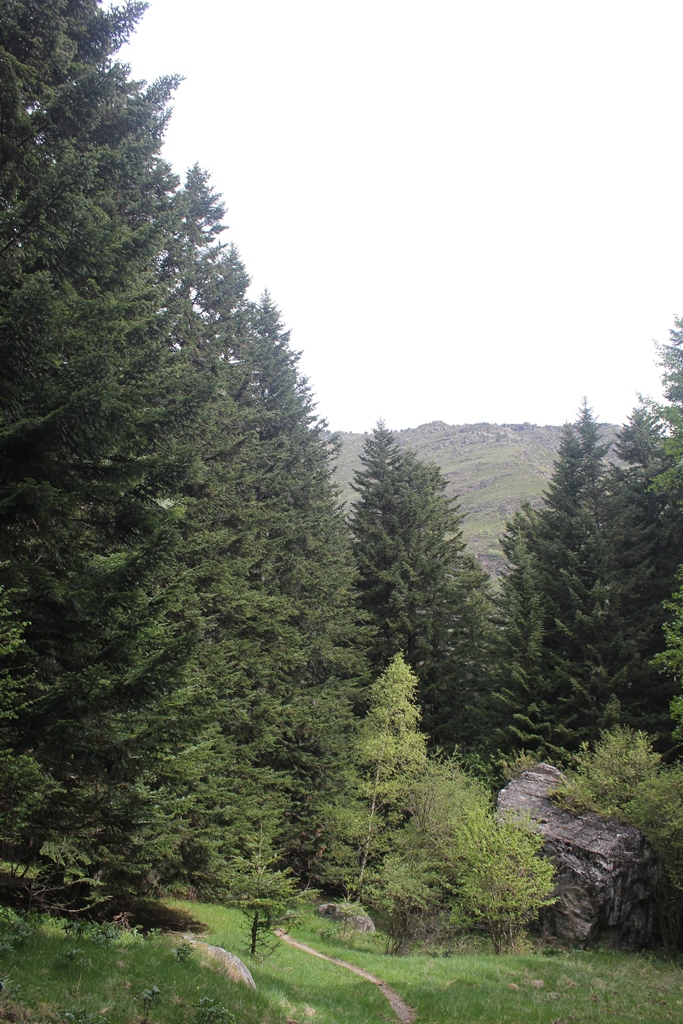 ’’Mata de València: clariana amb bloc de granit